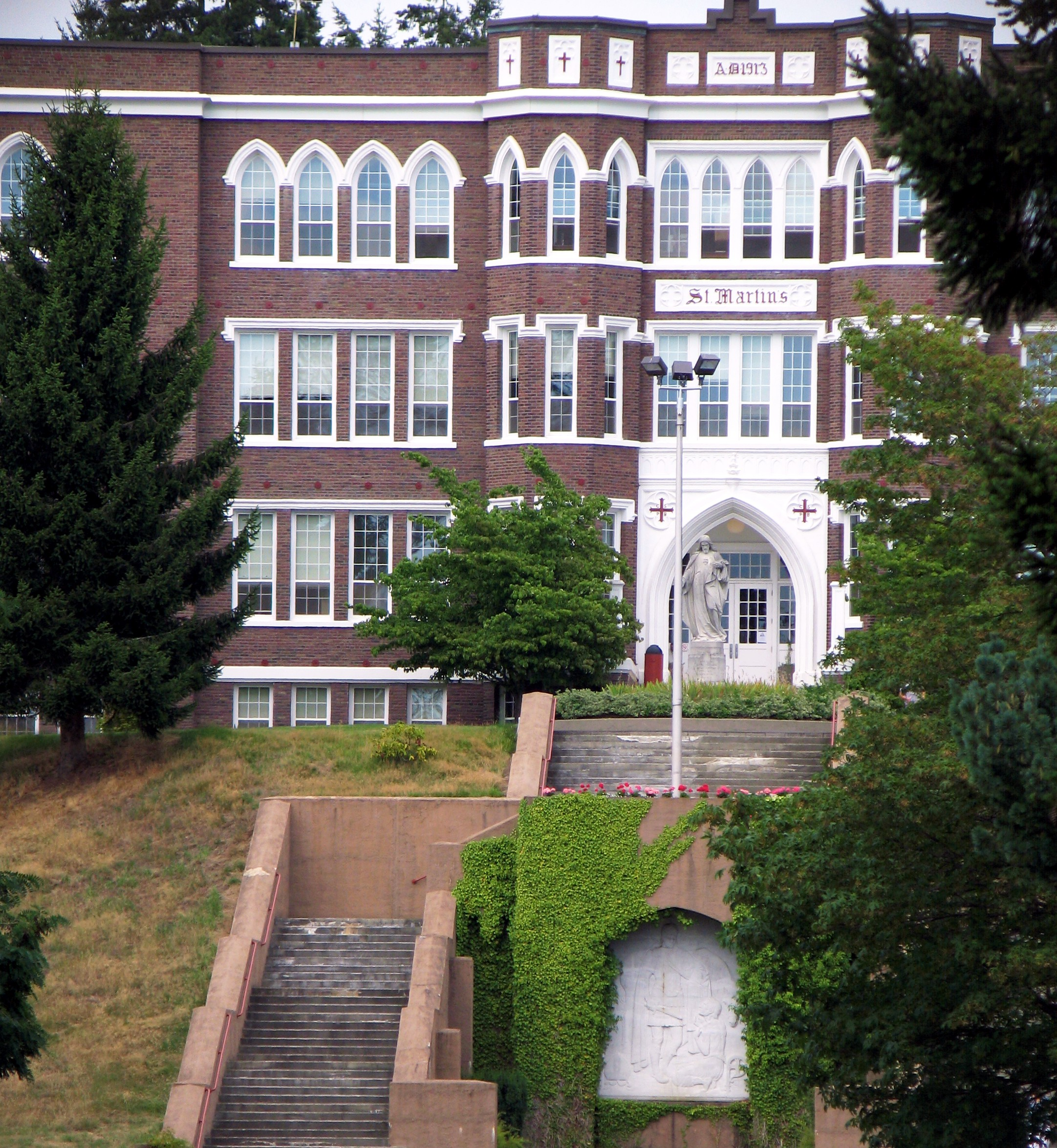 St.Martin's College